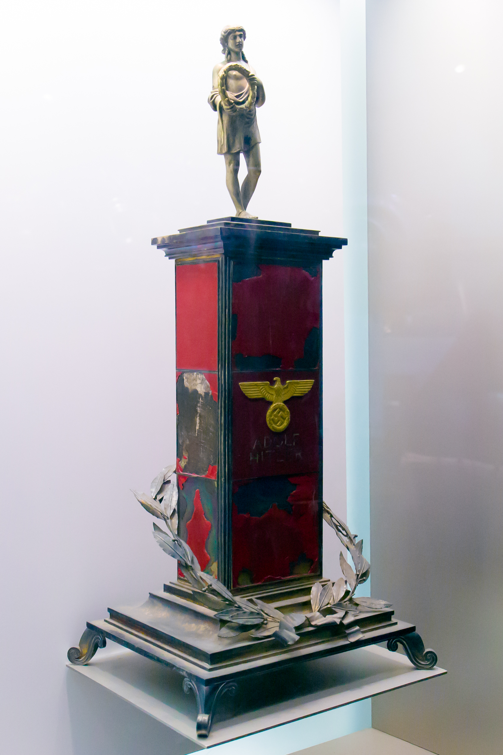 1939 German Grand prix winner's cup, won by Rudolf Caracciola.